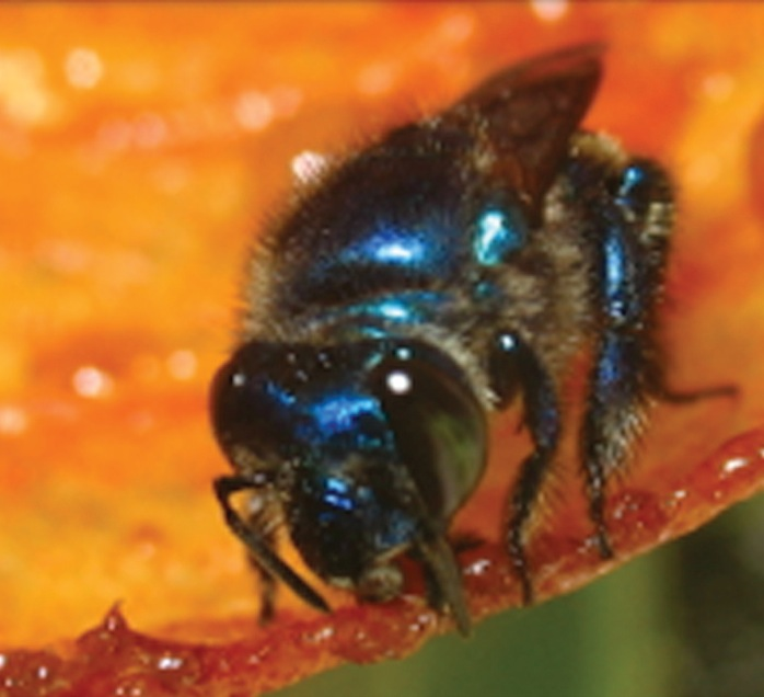 A female Euglossa hyacinthina shaping resin along the rim of the growing nest envelope.